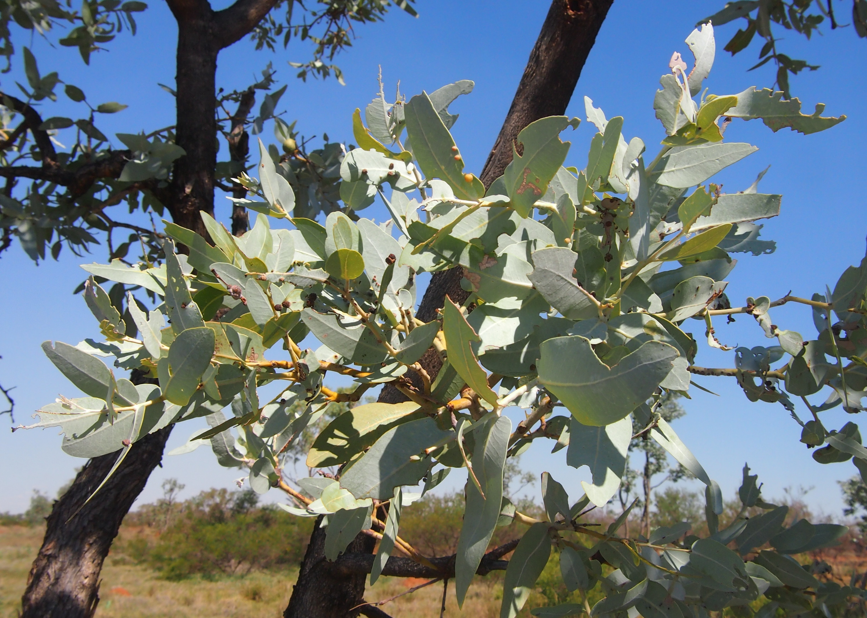 Eucalyptus pruinosa foliage